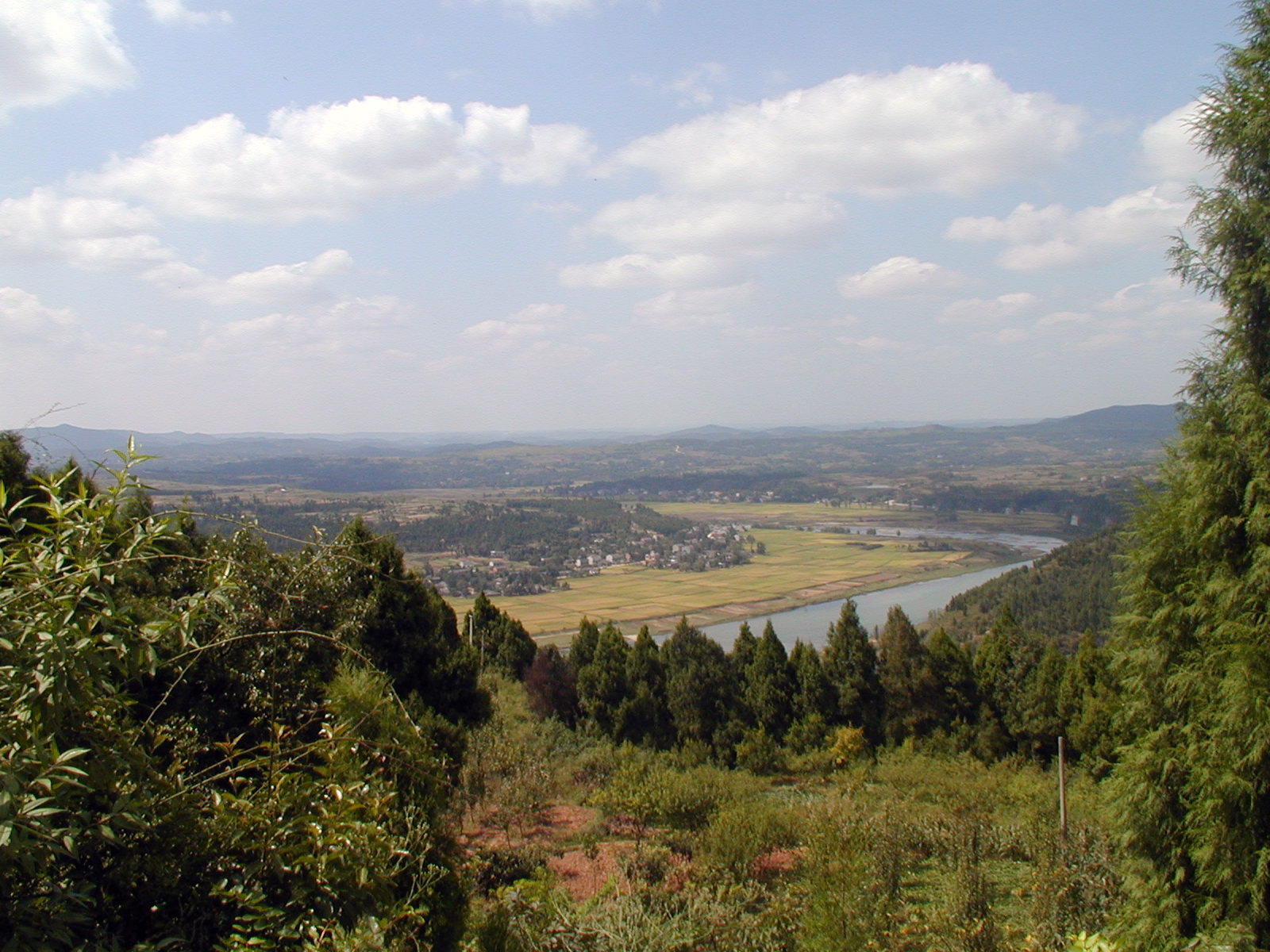 Zitong City panoramic taken from Wolong Shan mountain. Zitong lies in Mianyang, Sichuan, China.